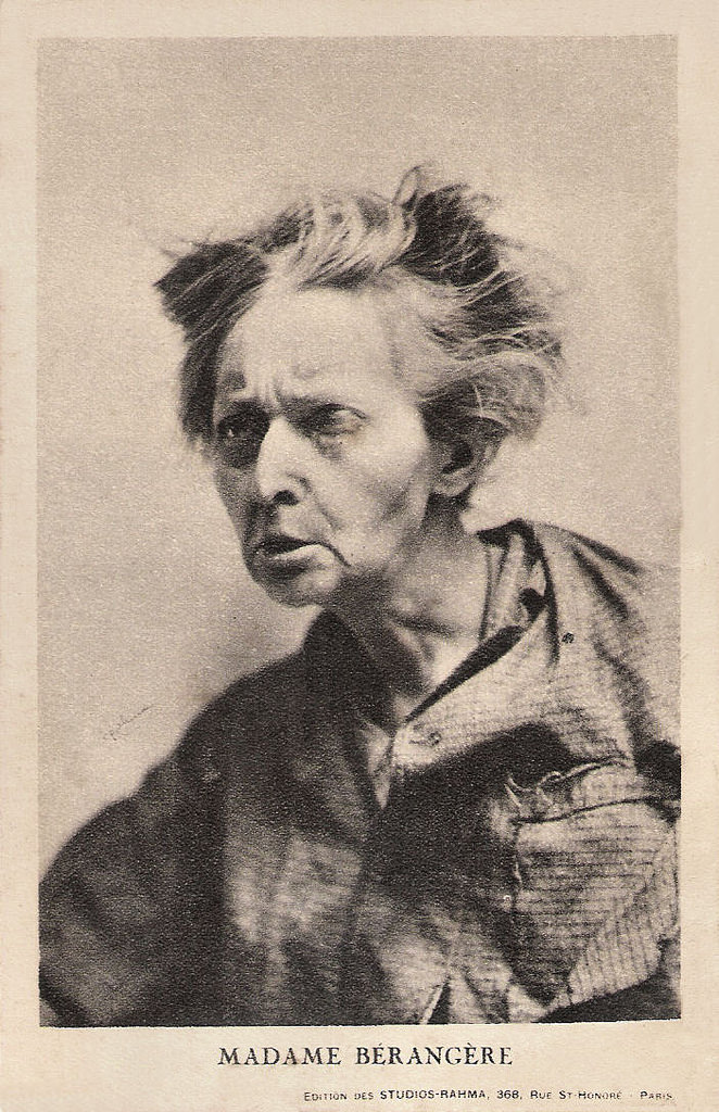 Jeanne Bérangère in Les mystères de Paris (1922) French postcard by Edition des Studios-Rahma, Paris. Photo: Rhama. Publicity still for Les Mystères de Paris/The Mysteries of Paris (Charles Burguet, 1922) with Jeanne Bérangère as La Chouette (the Owl). Jeanne Bérangère (9 June 1864 - 19 November 1928)[1] was a French stage and film actress whose career spanned nearly forty years on the stage and in films during the silent film era.